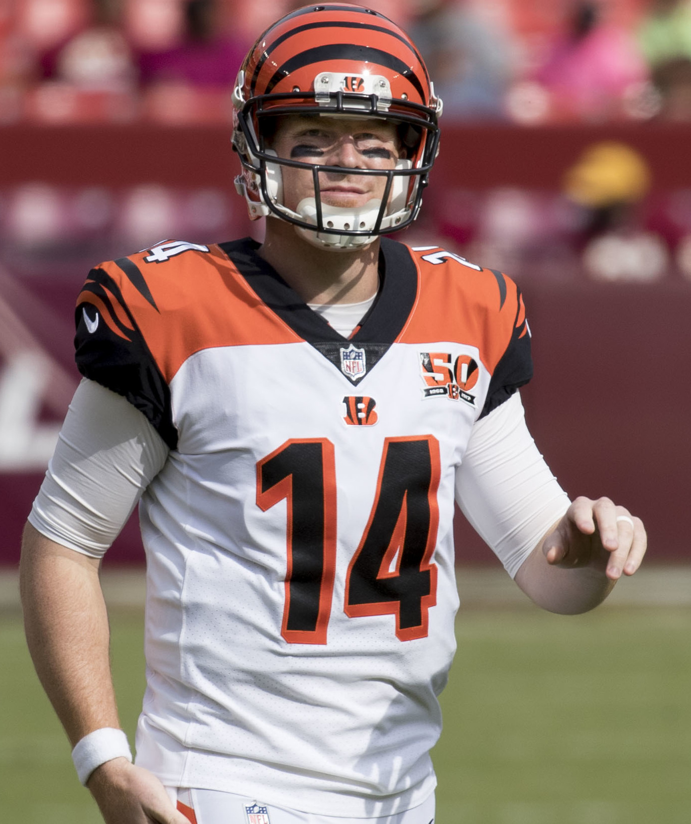 Cincinnati Bengals quarterback, Andy Dalton, playing against the Washington Redskins in a preseason game on August 27, 2017.